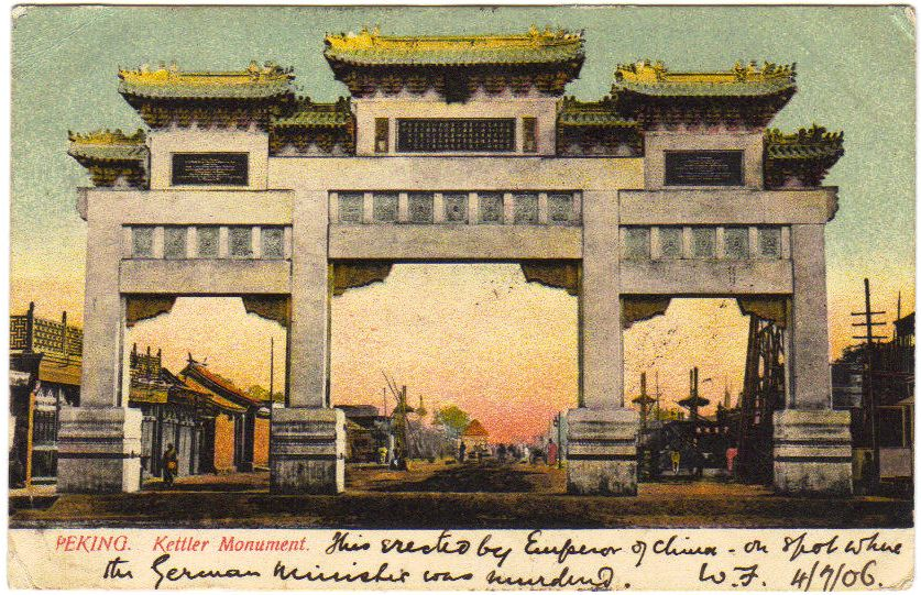 Peking Kettler Monument: The postcard was posted from Tanggu to Ireland.